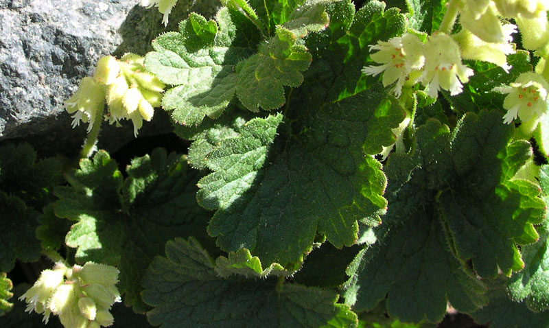 Elmera racemosa Dicot Saxifragaceae Elmera fuzzy elmera, yellow coralbells Thanks to edgeplot for help in the ID Mount Rainier, trail from Sunrise to Frozen Lake Elevation ~ 2000 meters (6600 feet) DSCx0186a